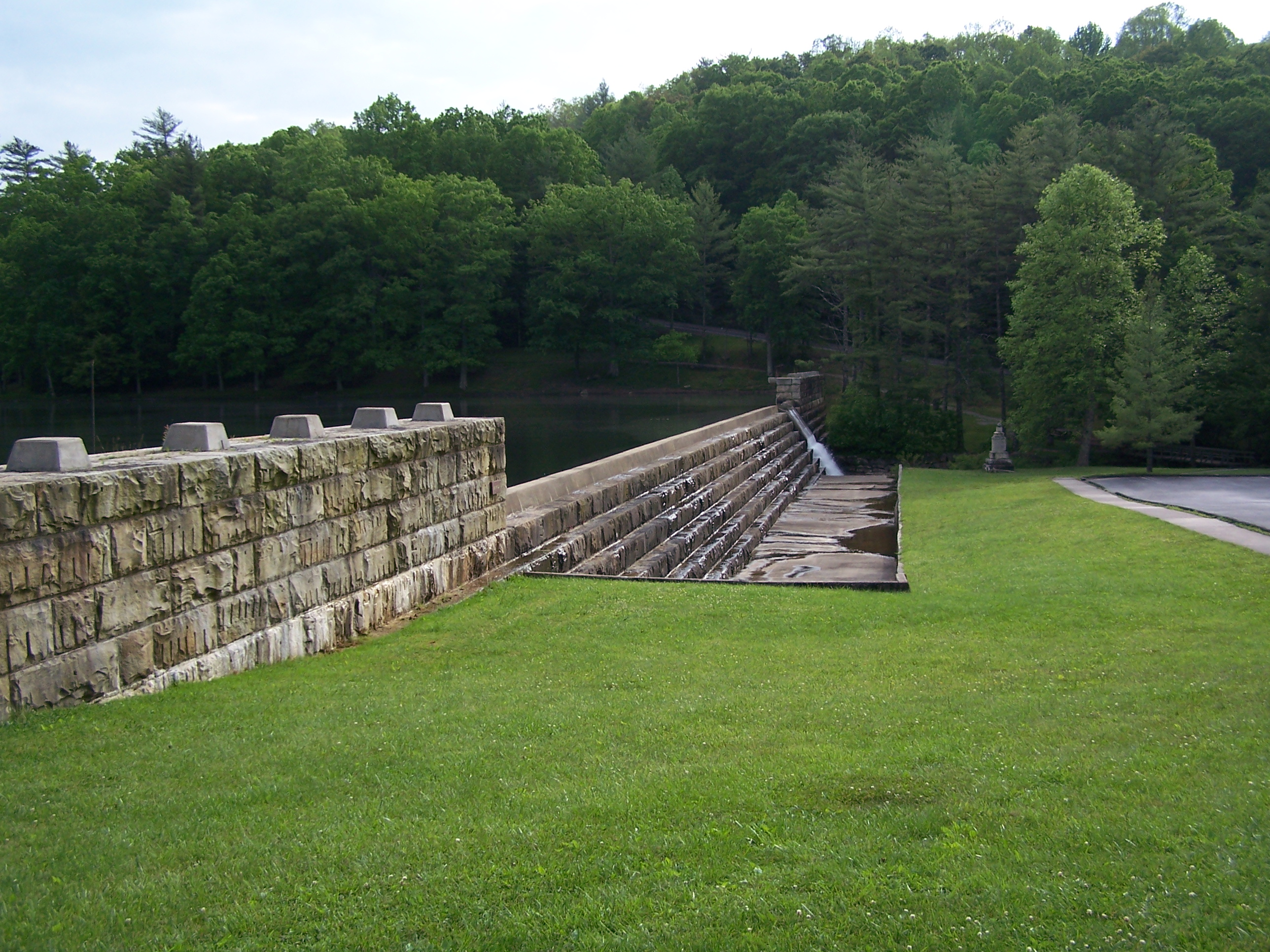 Dam at Little Beaver State Park.